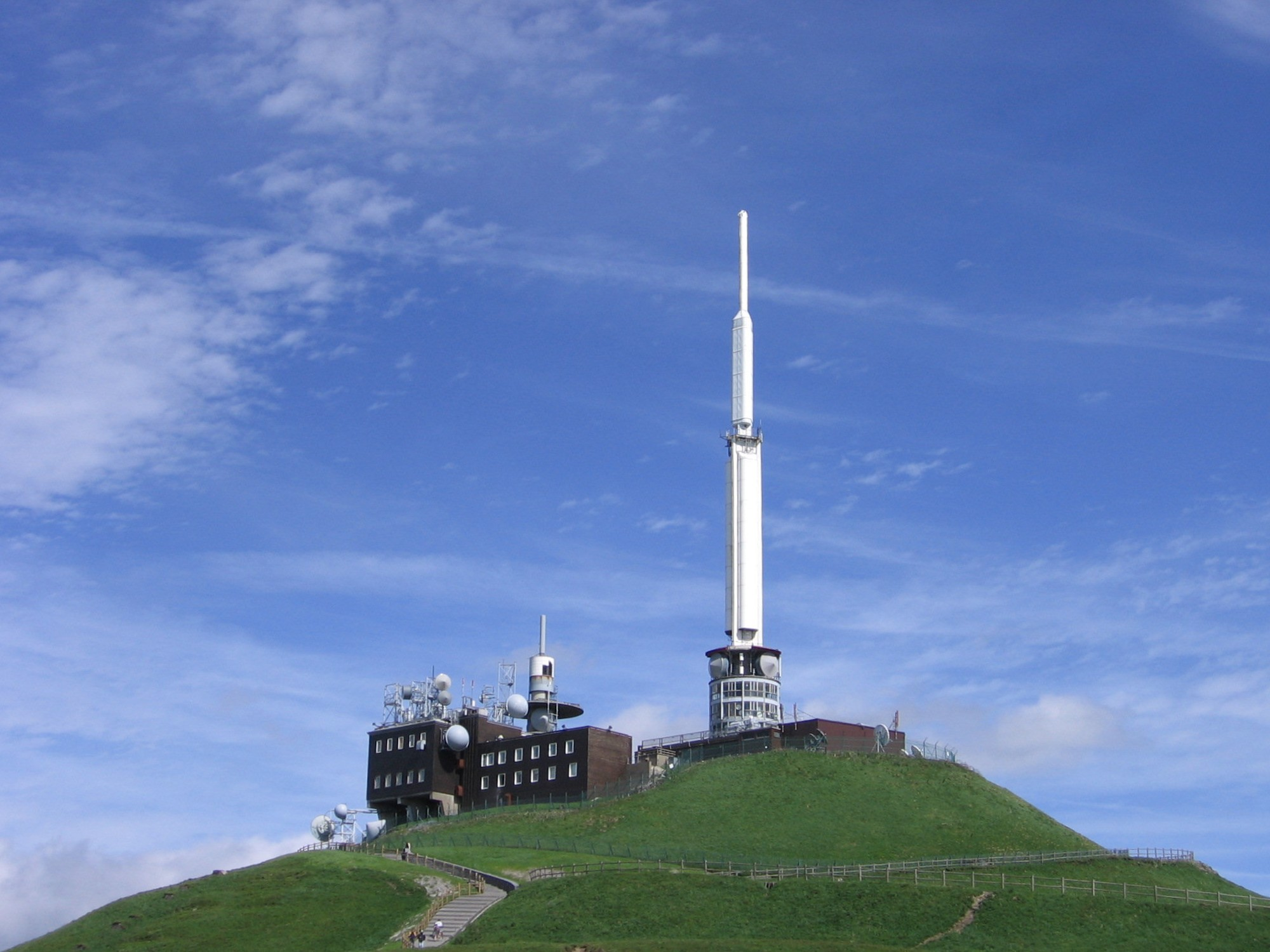 Puy de Dome (Antenna)